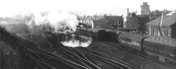 Largs railway station - train leaving platform 1.